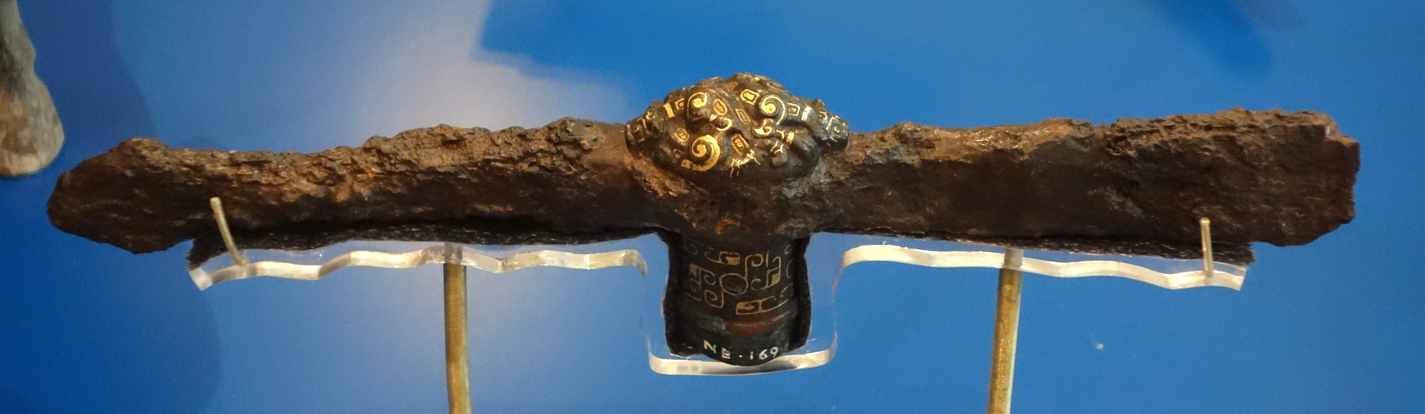 Exhibit in the Royal Ontario Museum, Toronto, Ontario, Canada. This work is old enough so that it is in the public domain.